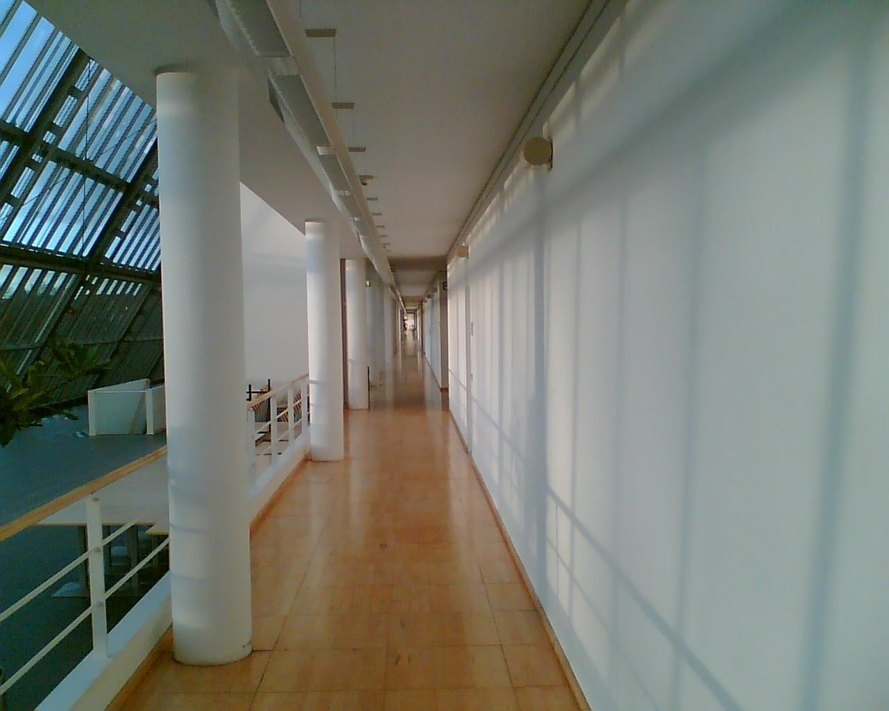 This picture was taken by Lutz Feldhege , who gave it to the public domain.